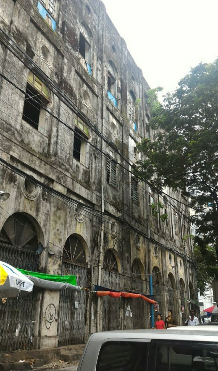 Mahatama Gandhi Memorial Trust Building